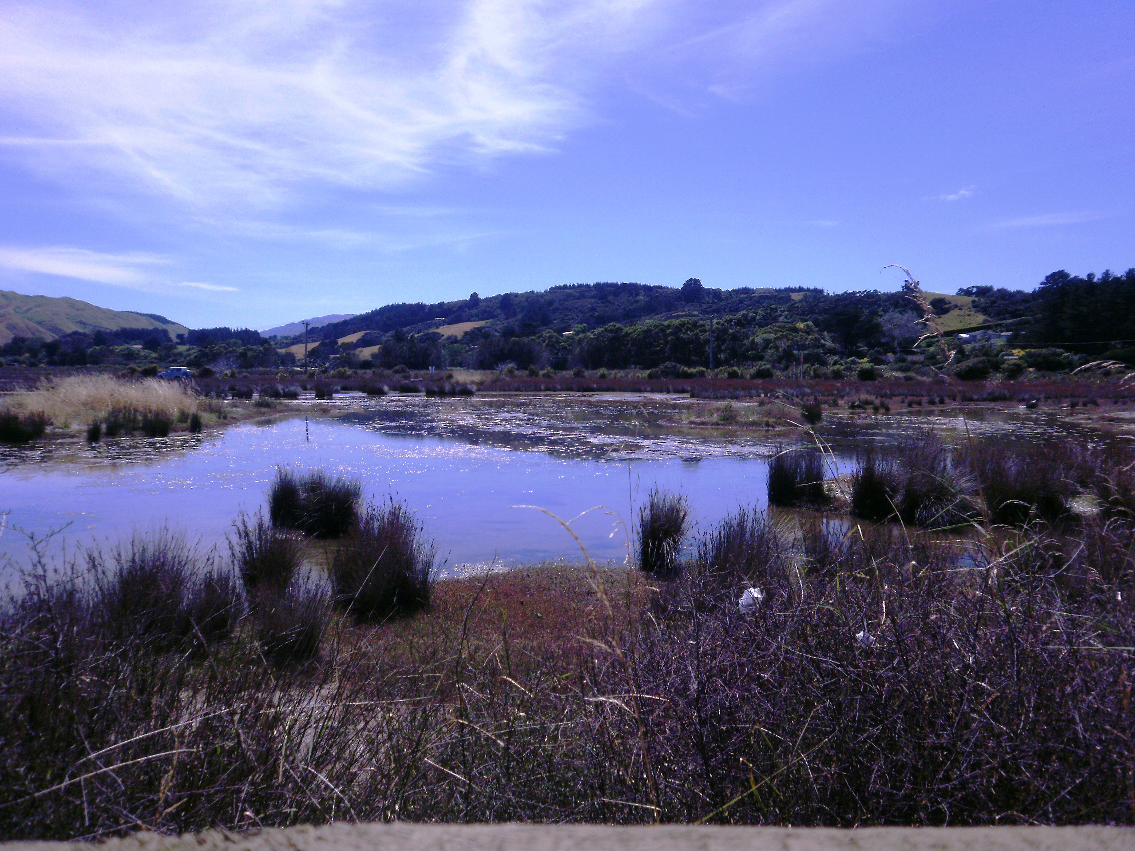 Pauatahanui Wildlife Reserve at Pauatahanui, Porirua, New Zealand